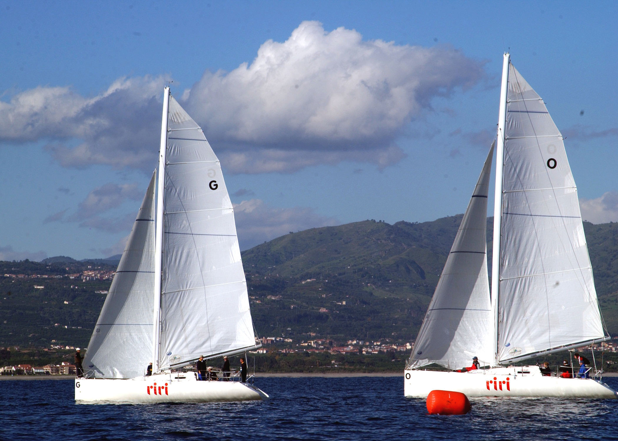 Catania, Sicily (Dec. 9, 2003) -- The U.S. Sailing Team jockeys for position and tries to find the best wind during the 6th race of the 3rd World Military Games sailing competition. The Military World Games consists of 86 participating countries and are designed to promote "Peace through Sports.” U.S. Navy photo by Photographer’s Mate 3rd Class Brain P. Smarr. (RELEASED)